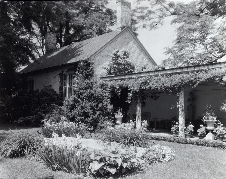 Title ["Chatham," Colonel Daniel Bradford Devore house, 120 Chatham Lane, Fredericksburg, Stafford County, Virginia. Porch and reflecting pool] Contributor Names Johnston, Frances Benjamin, 1864-1952, photographer Created / Published [1927] Subject Headings - Gardens--Virginia--Stafford County--1920-1930 - Houses--Virginia--Stafford County--1920-1930 - Porches--Virginia--Stafford County--1920-1930 Format Headings Lantern slides--1920-1930. Notes - Site History. House Architecture: Originally built by William Fitzhugh 1768-1771, restored, with changes, by Oliver H. Clark for Daniel Bradford Devore, from 1920. Landscape: Ellen Biddle Shipman, from 1922. David Hanlon, gardener. Associated Name: Helen Stewart (Mrs. Daniel B.) Devore. Today: House preserved as a National Park Service site, "Chatham Manor," with garden under restoration. - Title, date, and subject information provided by Sam Watters, 2011. - Forms part of: Garden and historic house lecture series in the Frances Benjamin Johnston Collection (Library of Congress). - Condition caution: unmounted slide. - Penciled on sleeve (not by FBJ?): no. # 433. Medium 1 photograph : glass lantern slide, b&w ; 3.25 x 4 in. Call Number/Physical Location LC-J717-X110- 8 [P&P] Repository Library of Congress Prints and Photographs Division Washington, D.C. 20540 USA Digital Id ppmsca 16905 //hdl.loc.gov/loc.pnp/ppmsca.16905 Library of Congress Control Number 2008679205 Reproduction Number LC-DIG-ppmsca-16905 (digital file from original item) Rights Advisory No known restrictions on publication. Online Format image Description 1 photograph : glass lantern slide, b&w ; 3.25 x 4 in. LCCN Permalink